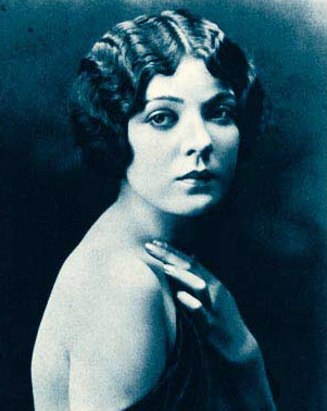 Publicity photo of Lila Lee from Stars of the Photoplay